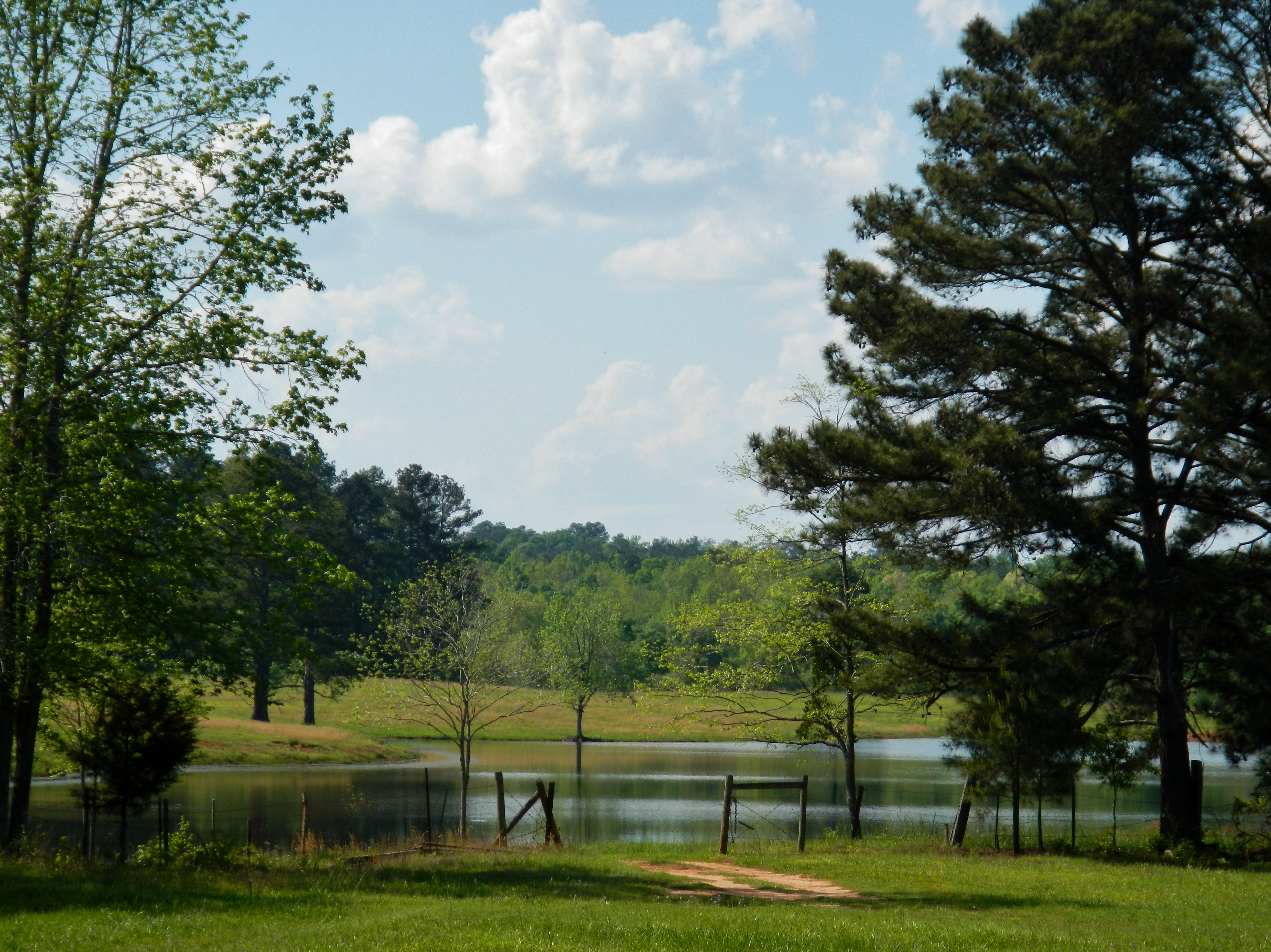 This is a photo of Murphy Lake in Troup County, Georgia.